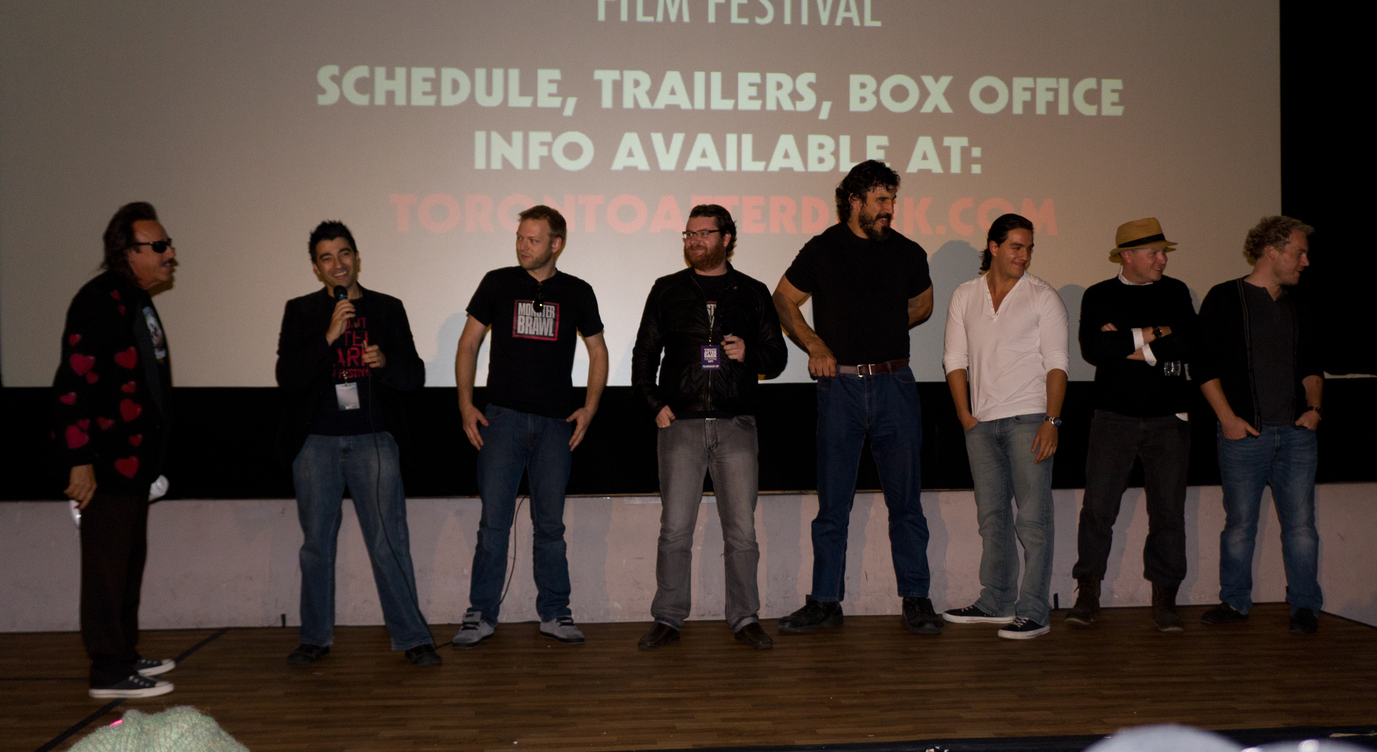 Cast and crew of the film Monster Brawl at the gala premiere filming at the 2011 Toronto After Dark Festival. From left: Jimmy Hart, Toronto After Dark Festival director Adam Lopez, actor Jason Brown, Jesse T. Cook (director of Monster Brawl), actor Robert Maillet, actor R.J. Skinner, Matt Wiele (producer), John Geddes (producer)